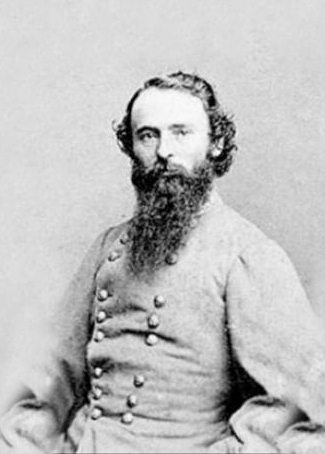 James Fleming Fagan. Image from Civil War Preservation Trust. Photograph appears to be archived at the US Library of Congress